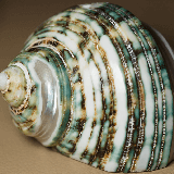 The thumbnail is a 160 by 160 scaled down version of the Wikipedia Commons photograph 'Green Sea Shell' by James Petts